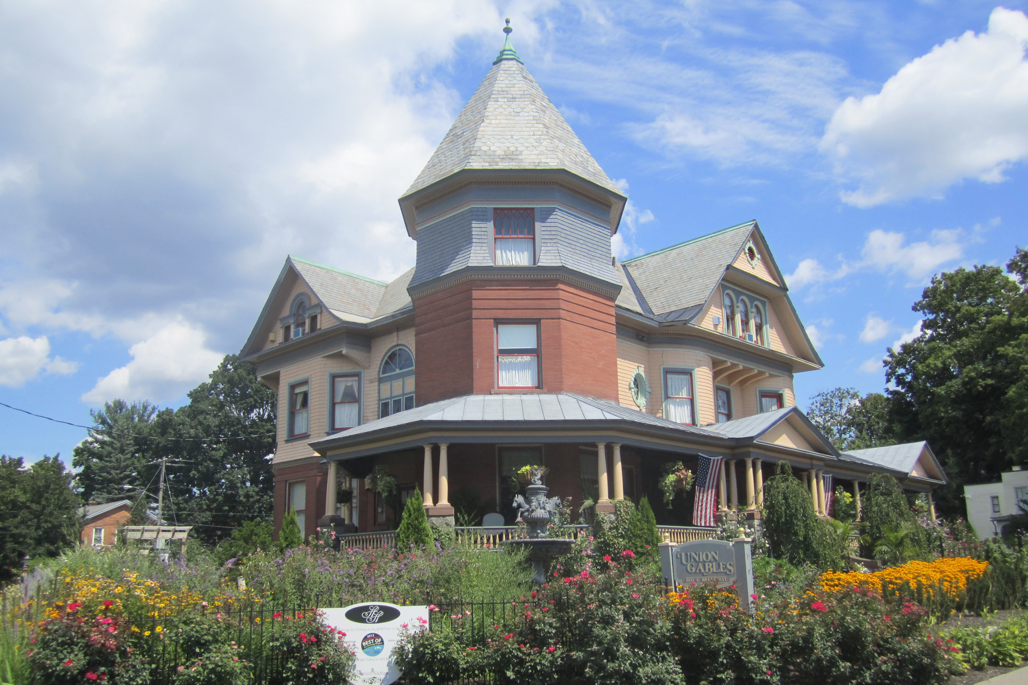 55 Union Ave, Saratoga Springs NY (1901). "Furness House", designed by Newton Brezee